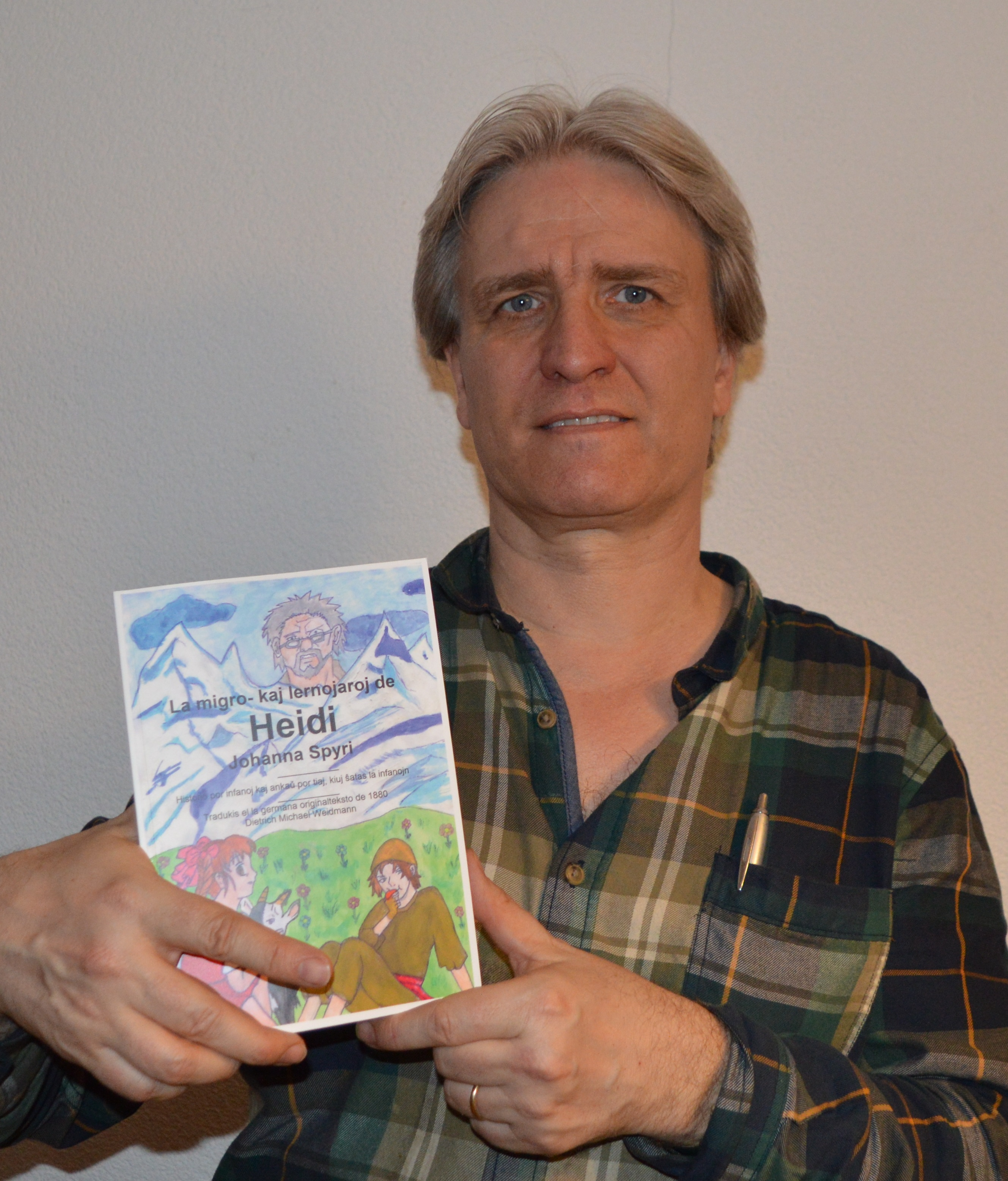 Dietrich Weidmann with the Esperanto edition of Heidi, Her Years of Wandering and Learning by Johanna Spyri